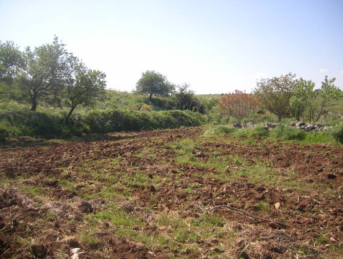 Pulo di Altamura - North-West lama (Karst geomorphic feature found in Murge, Italy)